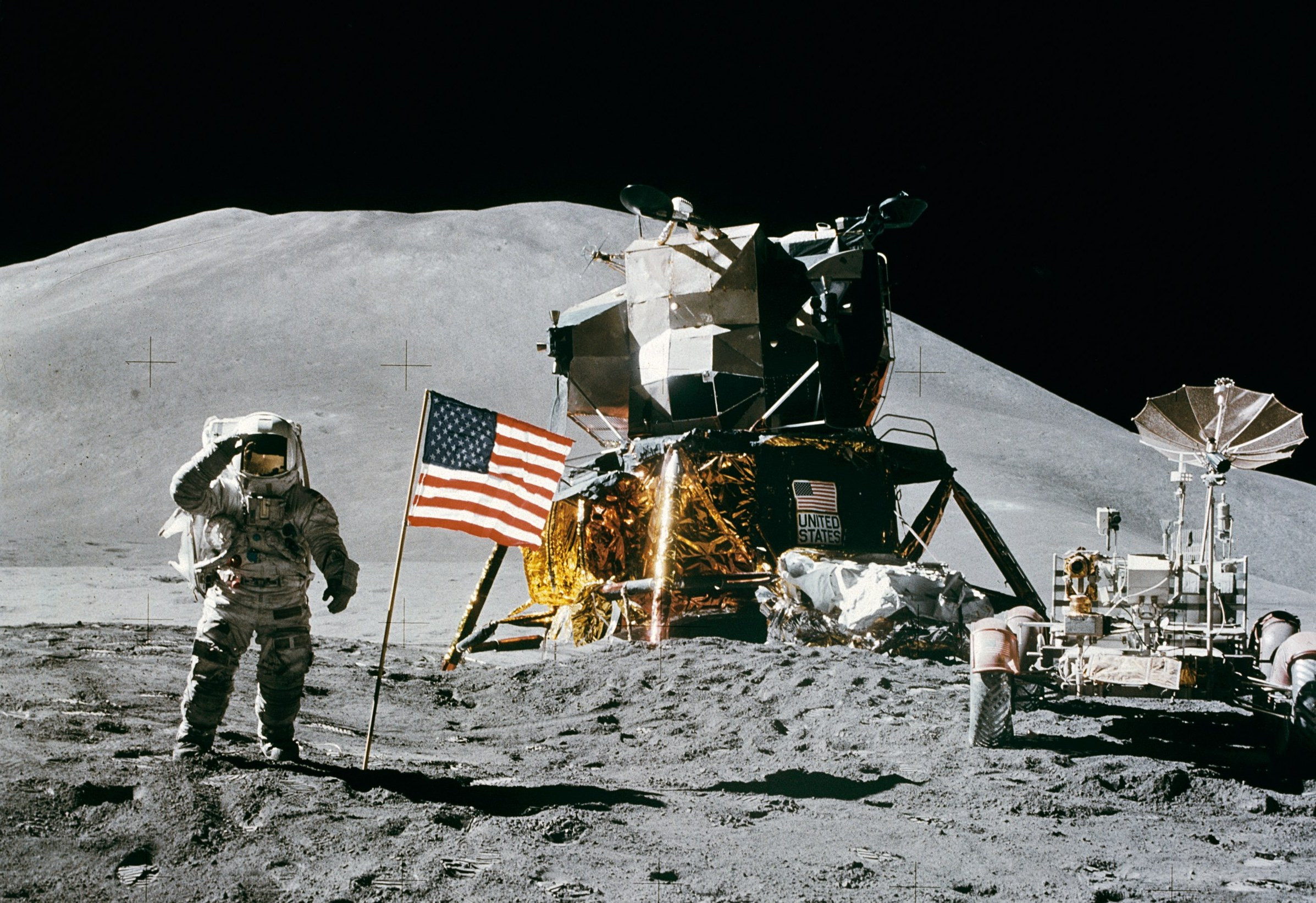 Cropped version of File:Apollo 15 flag, rover, LM, Irwin.jpg